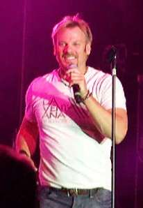 Phil Vassar performing at the Merced County Fair on July 19, en:2007.